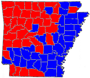 County results of the 2010 Arkansas Commissioner of State Lands election. John M. Thurston (R) LJ Bryant (D)